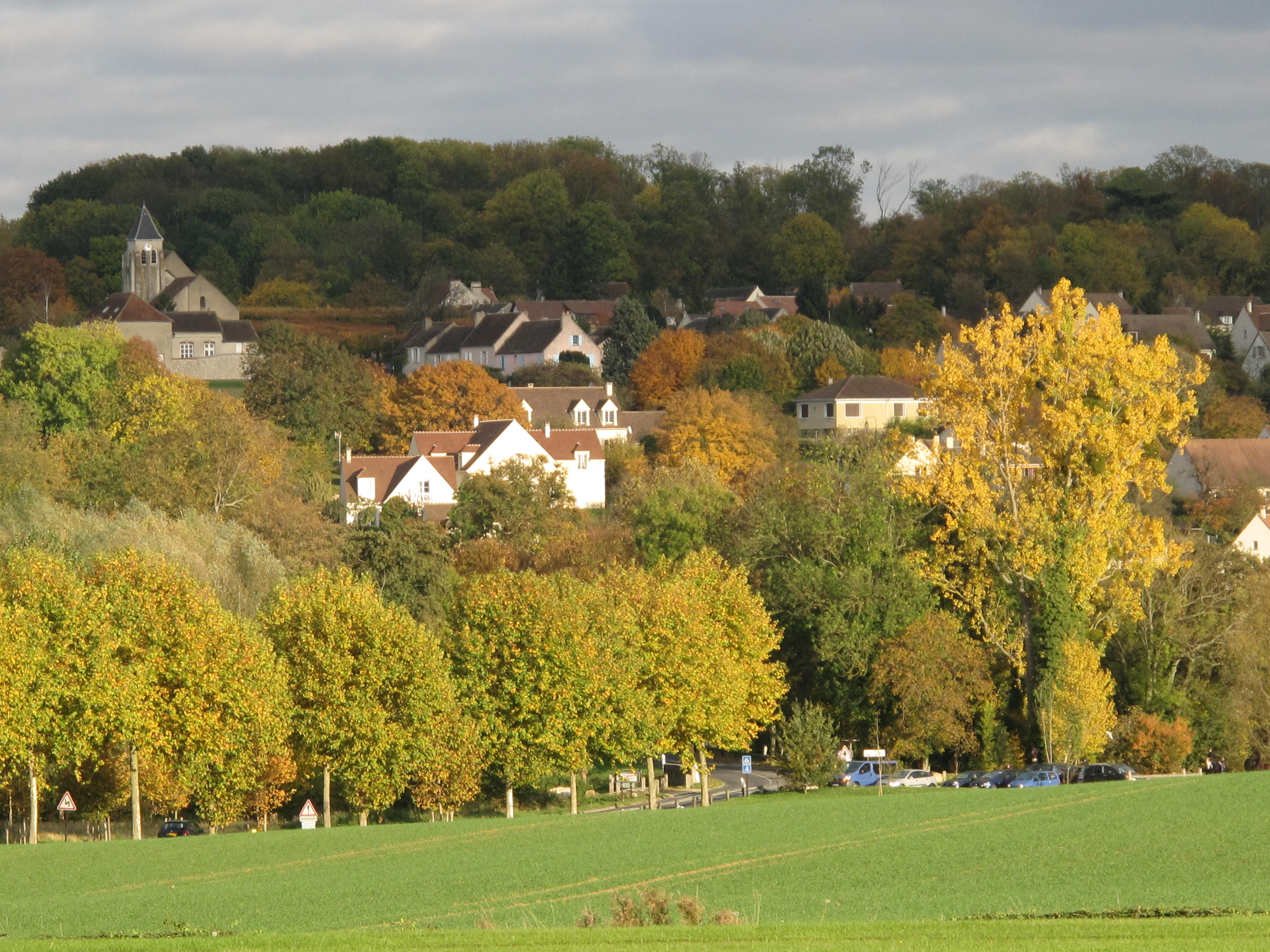 The village of Bussy-Saint-Martin seen from the park of the castle of Rentilly (Seine-et-Marne, France).